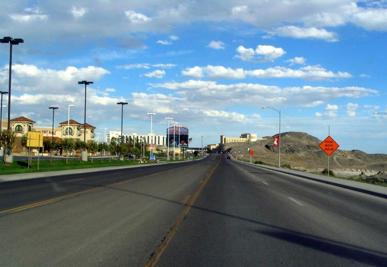 Interstate 80 Business just past the intersection with U.S. Route 93 Alternate in West Wendover, Nevada, traveling east towards the Utah state line. This is a retouched picture, which means that it has been digitally altered from its original version. Modifications: cropped, color corrected. Modifications made by CountyLemonade.